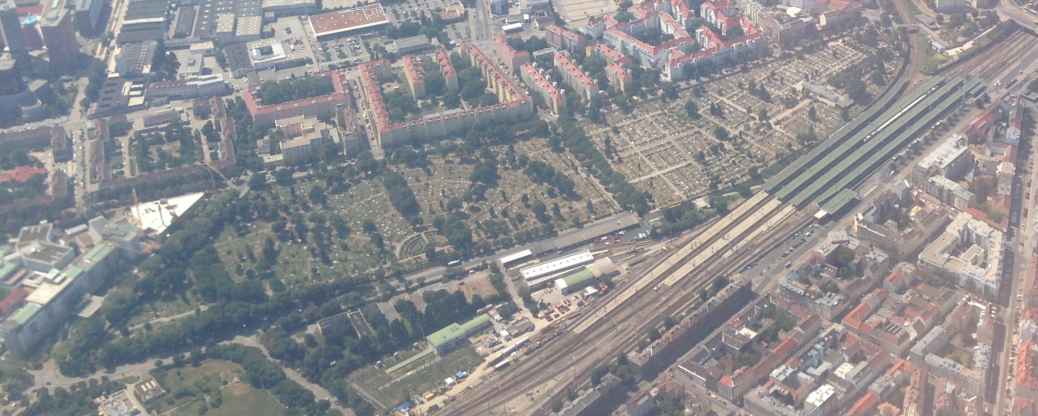 Vienna Aerials July 2013 - 03